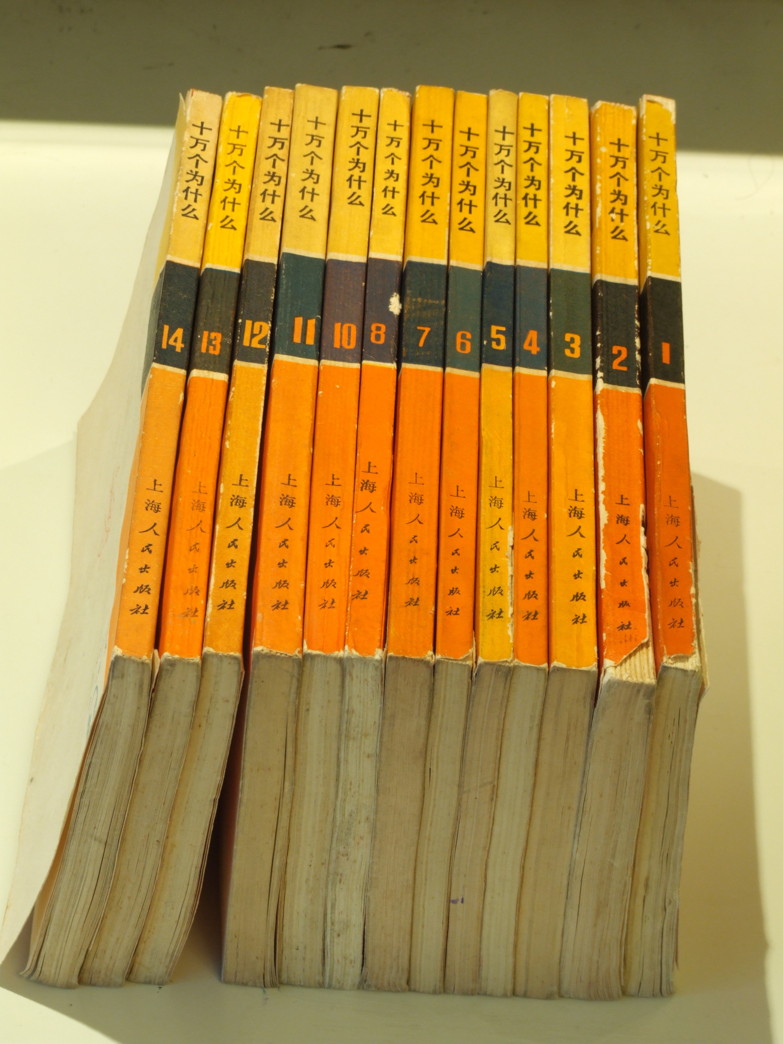 A Chinese science book series published in the 1970s(lacking Book 9)